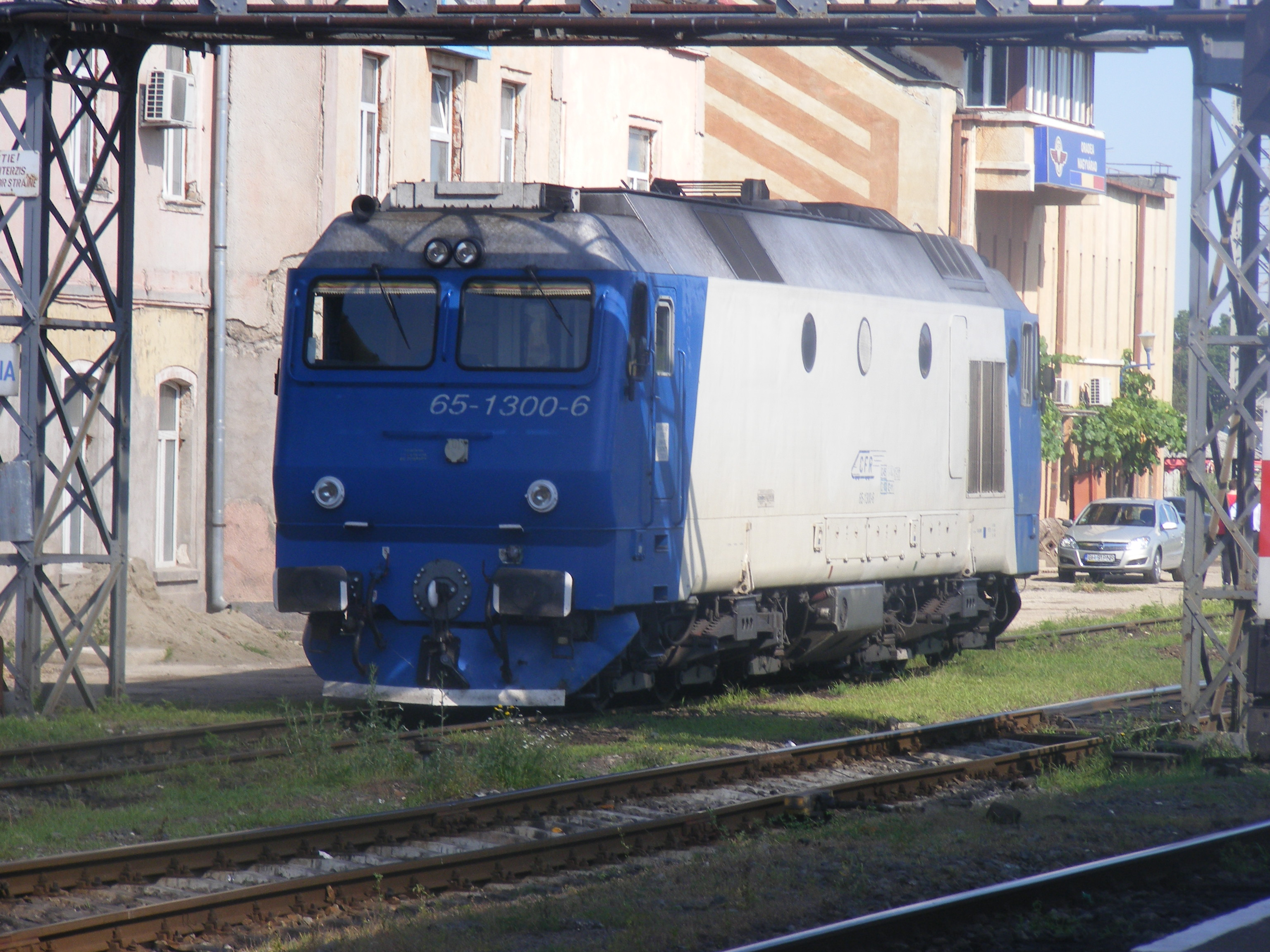 CFR GM 65-1300-6 seen idling and waiting for its next train at Oradea railway station